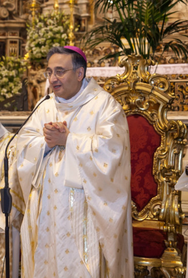 Monsignor Gennaro Acampa, auxiliary bishop of Naples